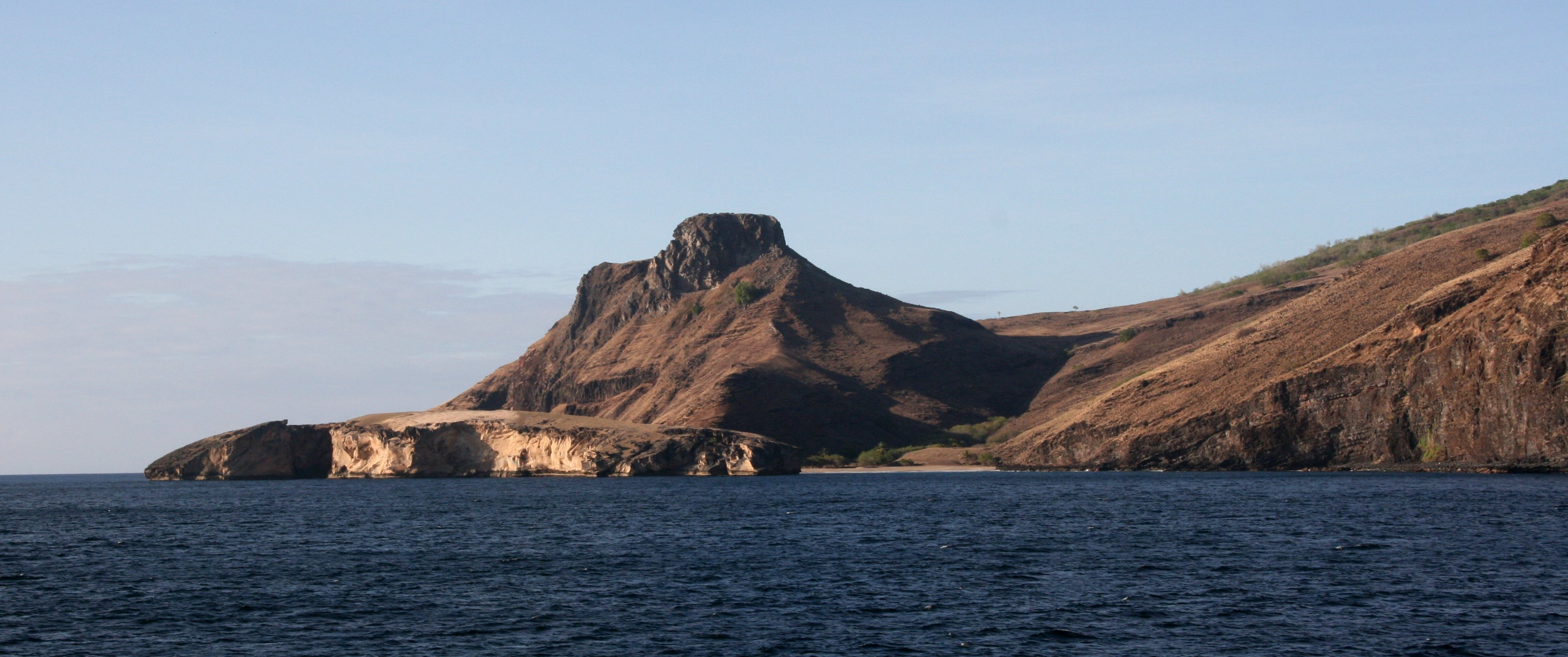 The Matau point, with semi-arid climate, on the south-western coast of the island of Ua Huka, Marquesas Islands, French Polynesia.